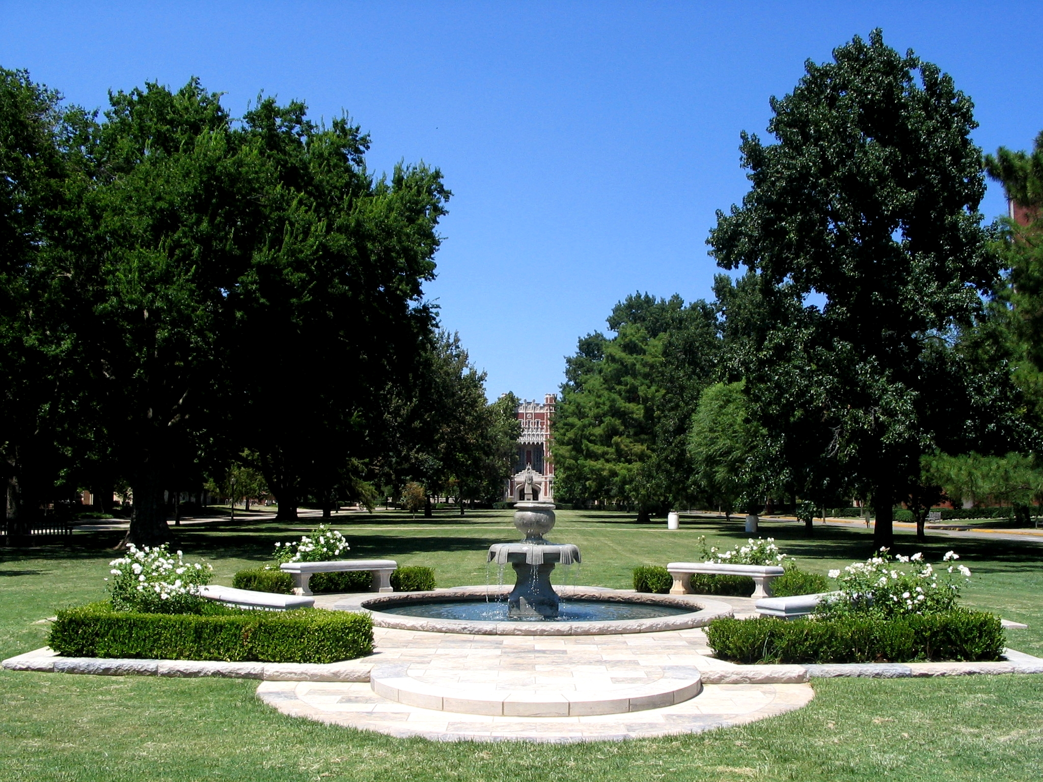 A view from the South Oval looking north towards fountain and library in the backgroung.